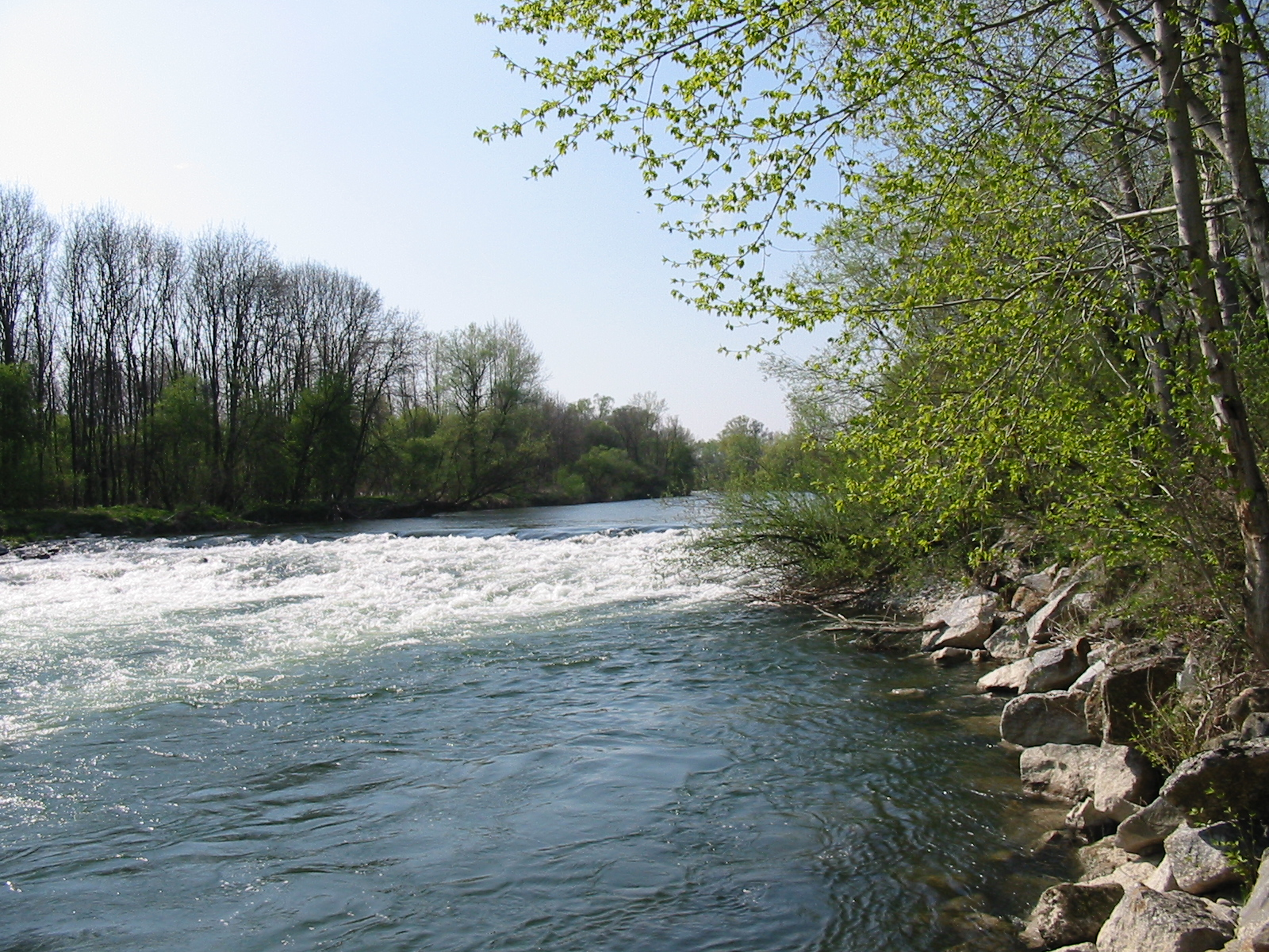 Low Weir in the Ybbs near Amstetten, Greimpersdorf